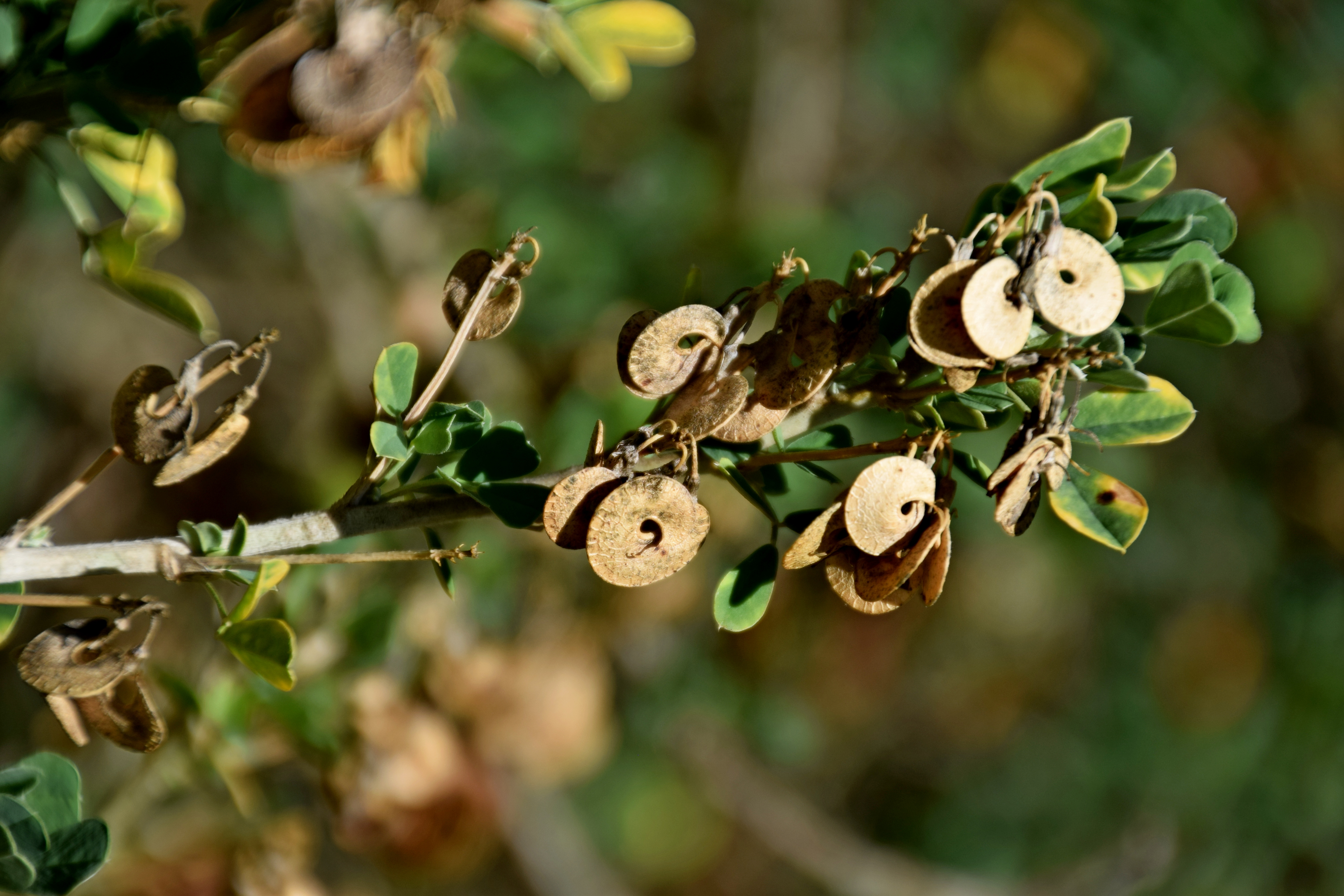 Medicago arborea in Jardin des Plantes de Toulouse